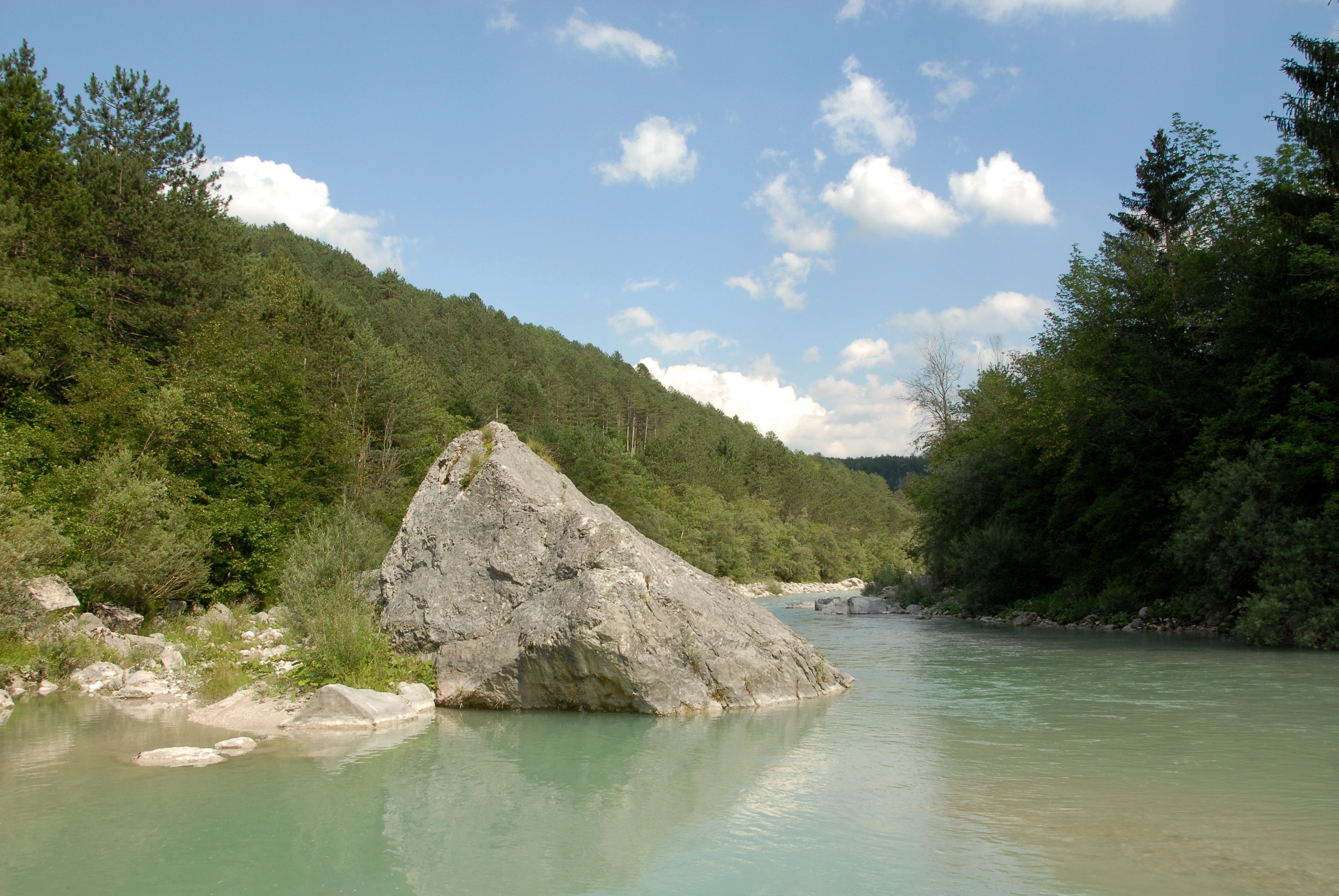 Resia valley in Friuli Venezia-Giulia, Italy